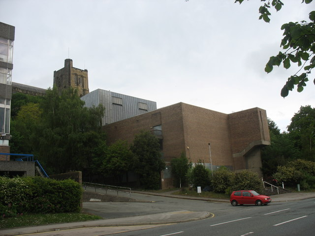 The disused Theatr Gwynedd Theatre, Deiniol Road The tower above belongs to the main building of Bangor University.